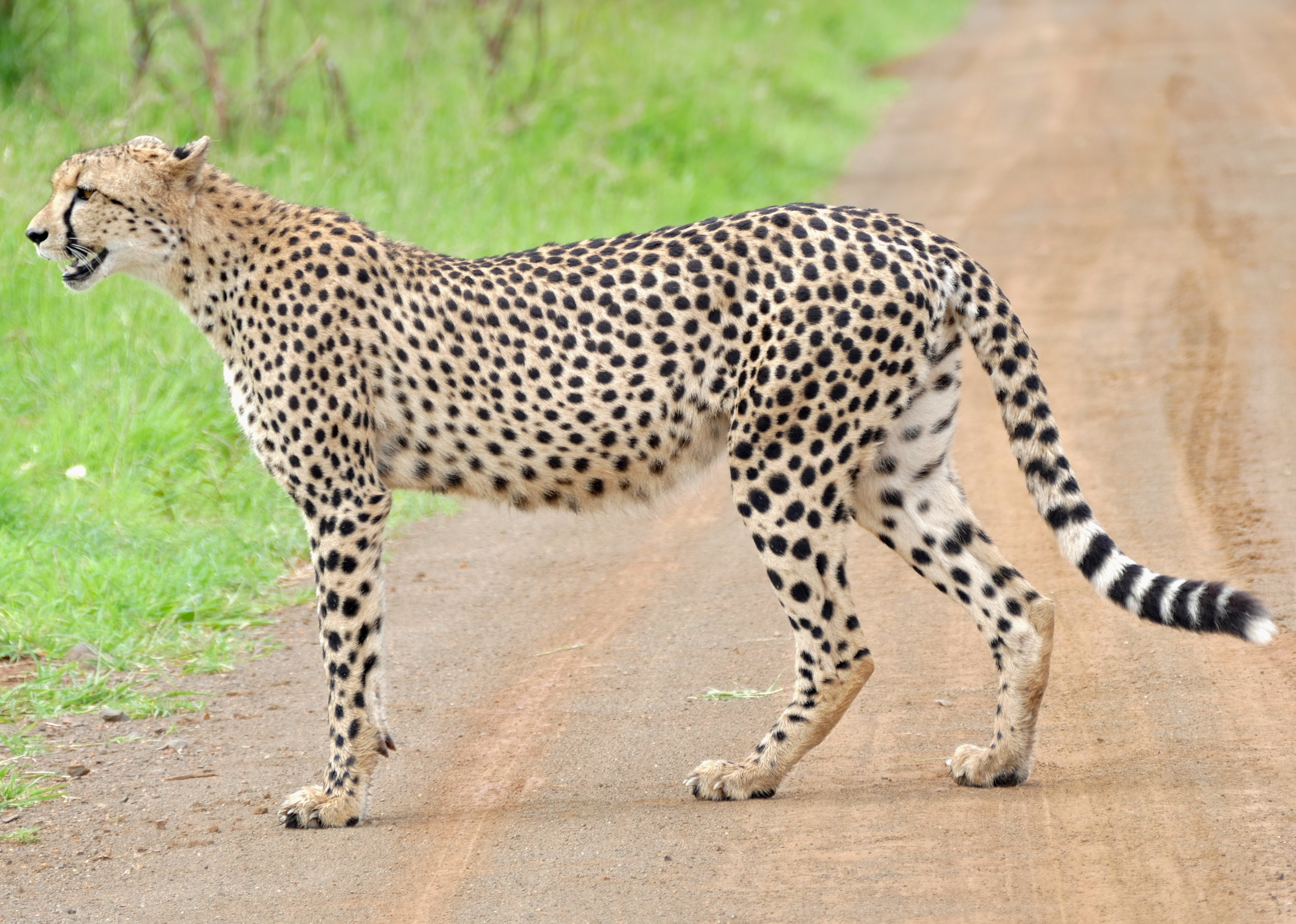 S128 Road North of Lower Sabie, Kruger NP, SOUTH AFRICA